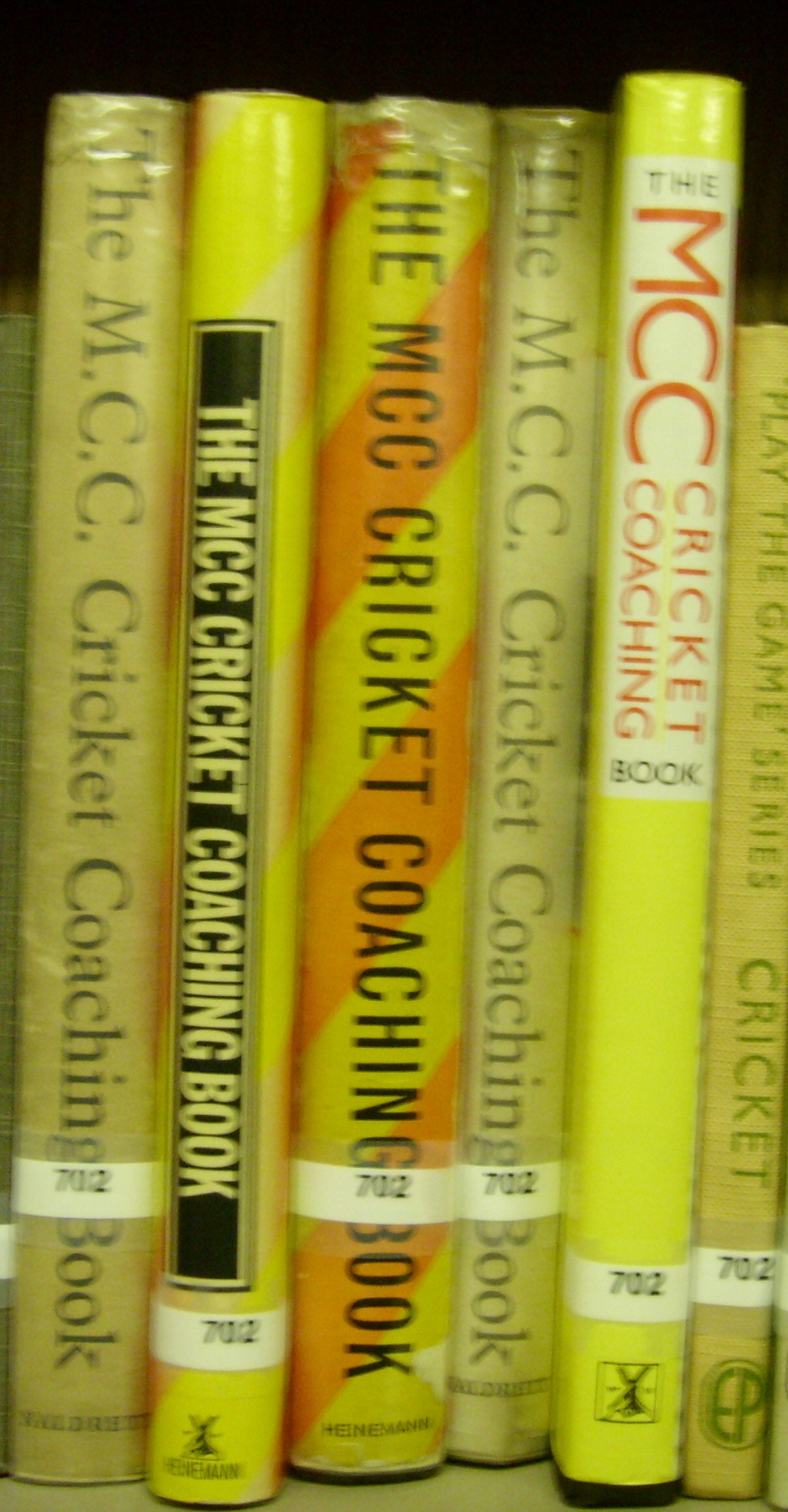 MCC Coaching books